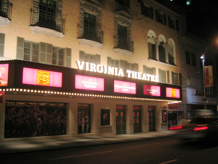 Virginia Theatre (now the August Wilson Theatre) Manhattan, New York City